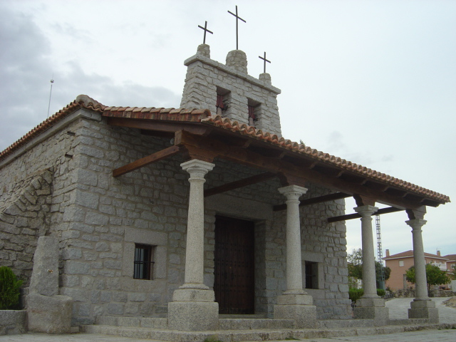 Ermita del Santo Ángel de la Guarda, Chapinería, Madrid.